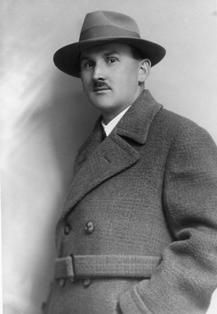 Gustaw Fierla (1896–1981) Polish painter and social activist.